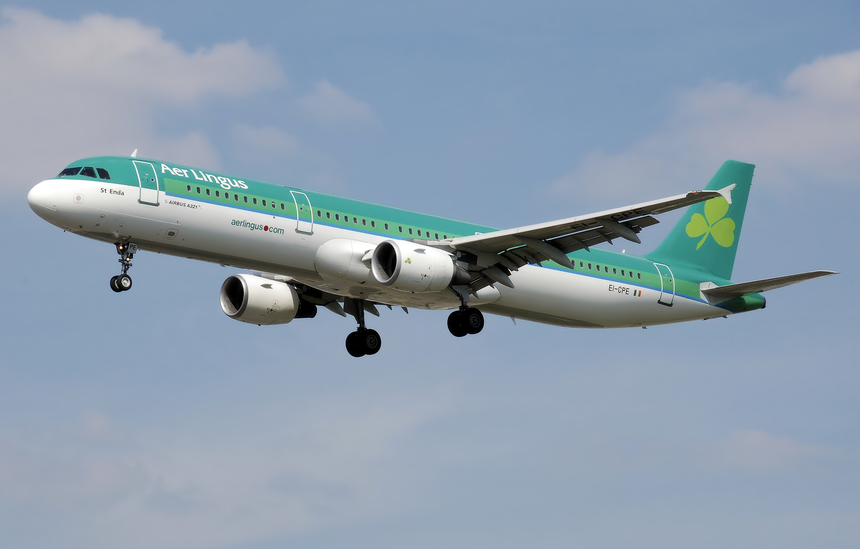 Aer Lingus Airbus A321-200 (EI-CPE) landing at London Heathrow Airport.